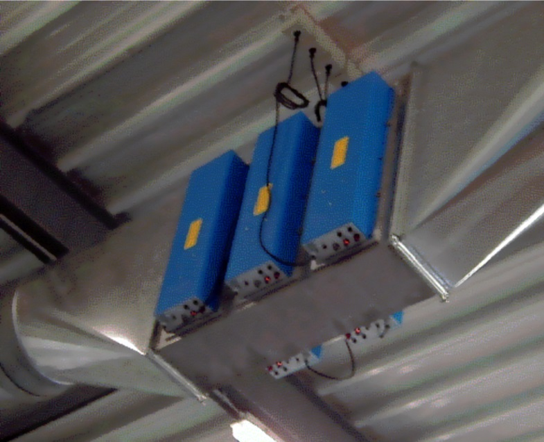 Air duct with mounted Bentax-ionizing units for preparation of the air, like odor neutralization, decomposition of pollutants and disinfection.